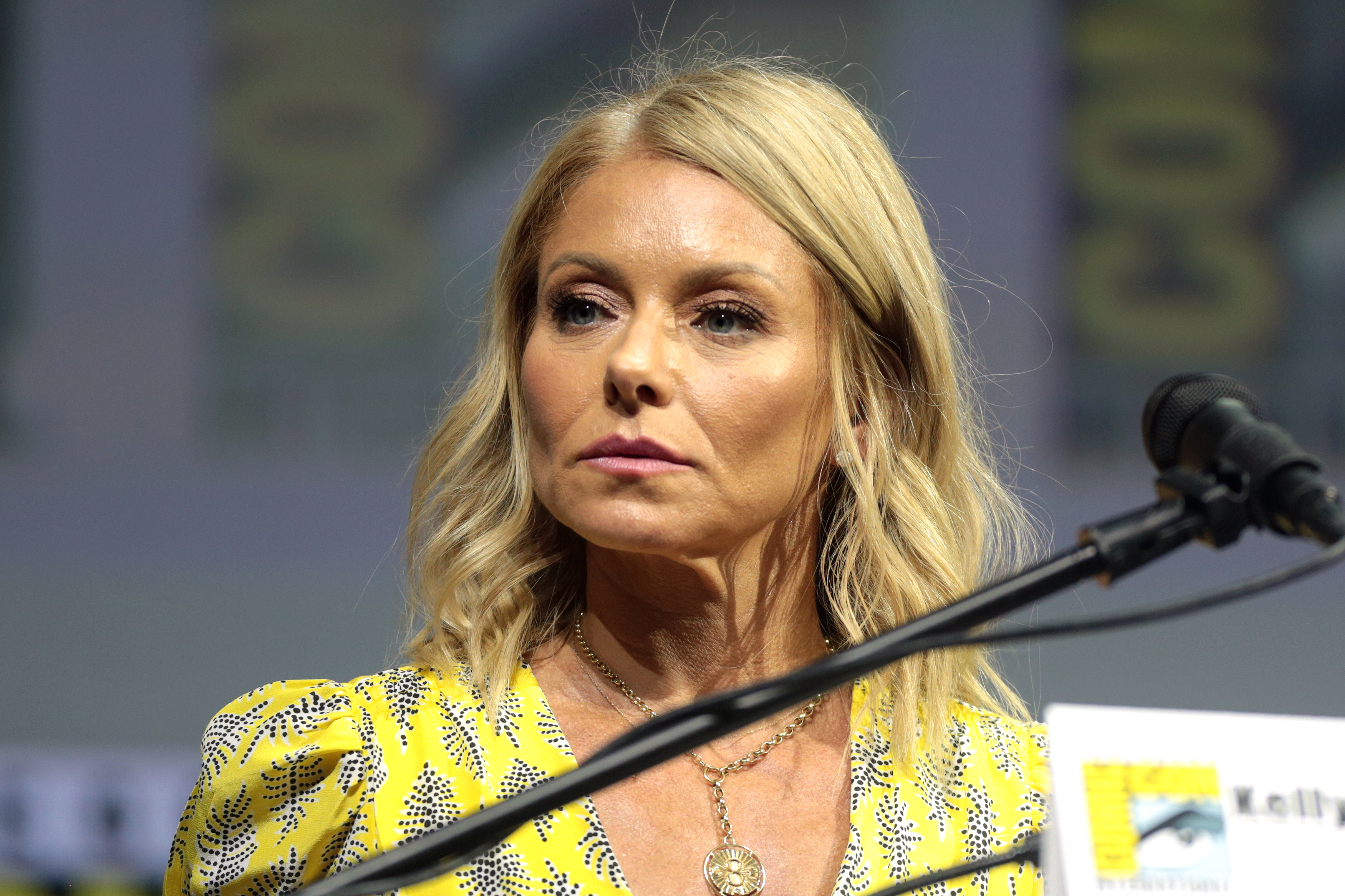 Kelly Ripa speaking at the 2018 San Diego Comic Con International, for "Riverdale", at the San Diego Convention Center in San Diego, California.